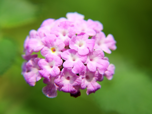 Photo place: University town of Guangzhou, China Common name: big sage, wild sage, red sage, white sage, tickberry